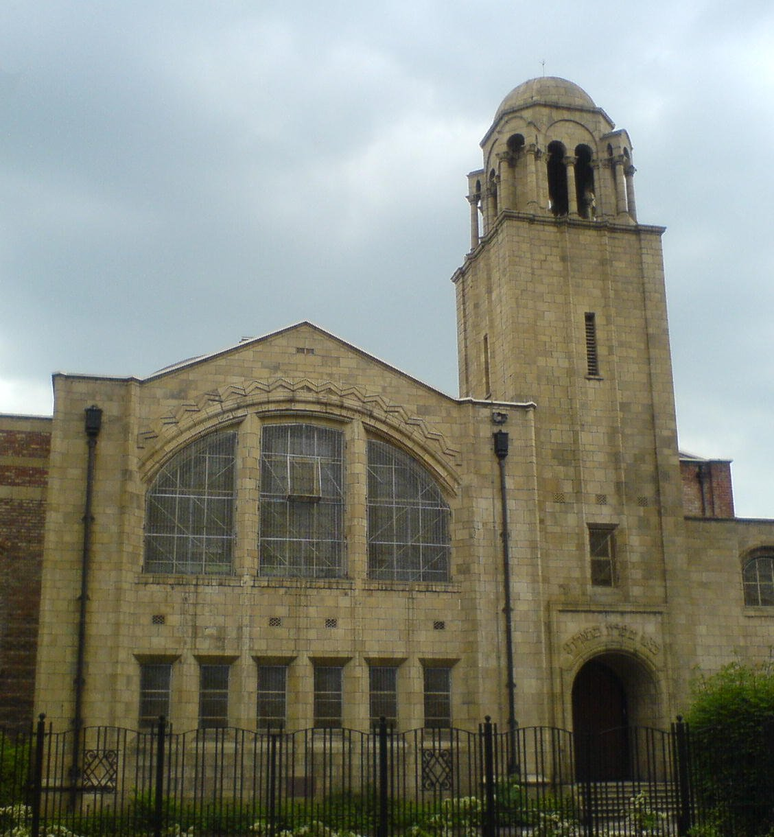 Former synagogue of the South Manchester Hebrew Congregation, Wilbraham Road, seen from the north